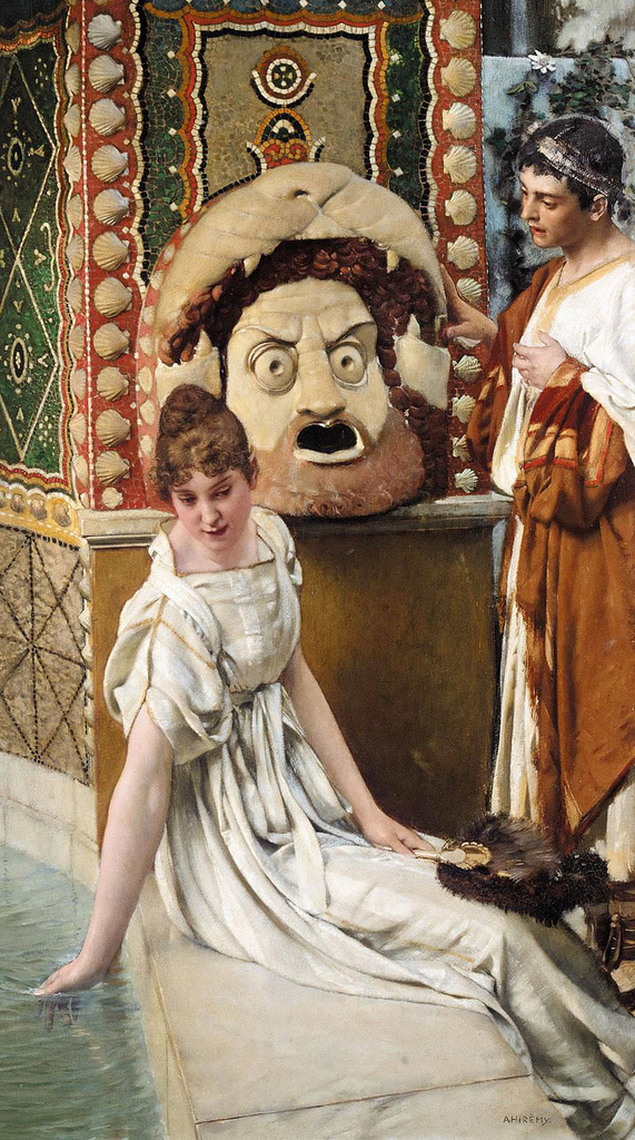 Paintings by Adolf Hirémy-Hirschl only witness